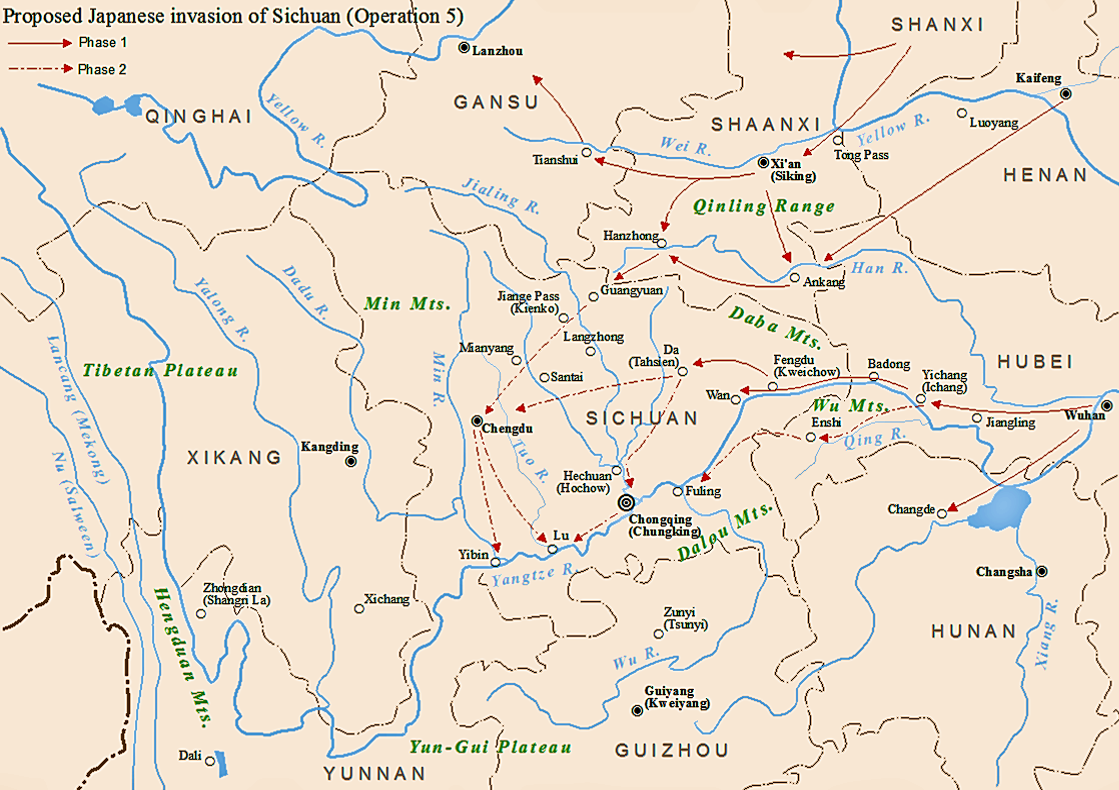 The proposed Operation 5, the invasion of Sichuan, by Japanese during the World War II.